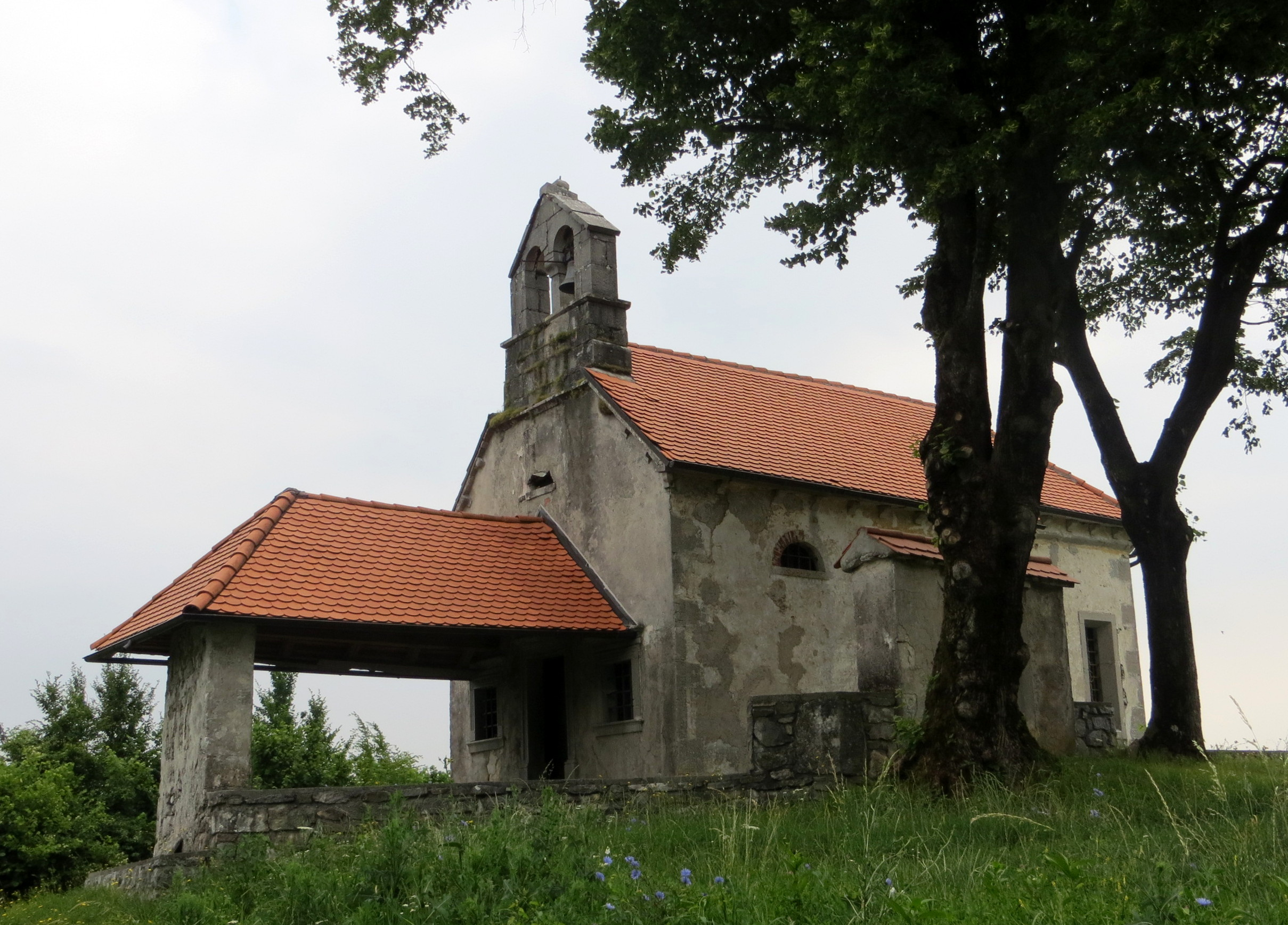 Saint Gertrude's Church in Slavinje, Municipality of Postojna, Slovenia